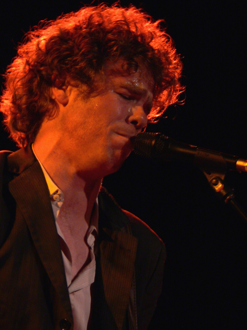 Josh Ritter at the Music Hall of Williamsburg, 4-27-08